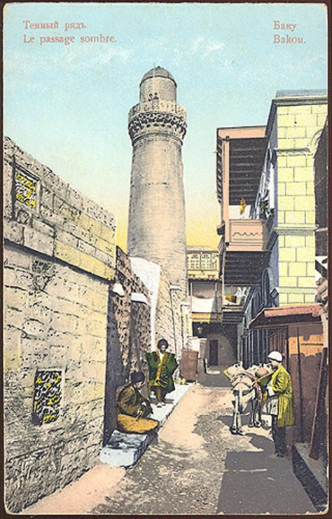 Muhammad mosque in Baku (Azerbaijan)